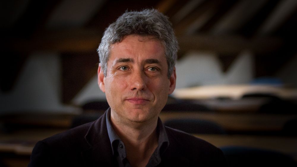 Jan Cermak in 2014